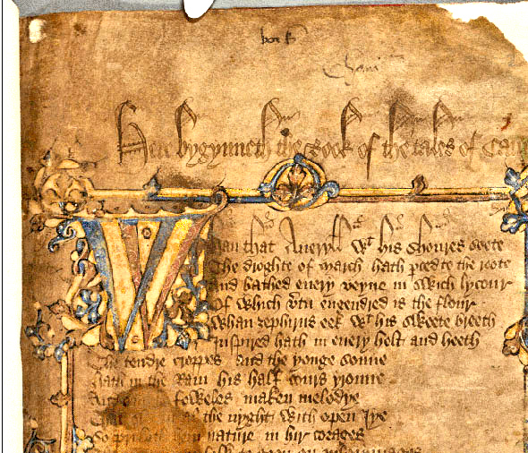 Opening folio of the Hengwrt manuscript